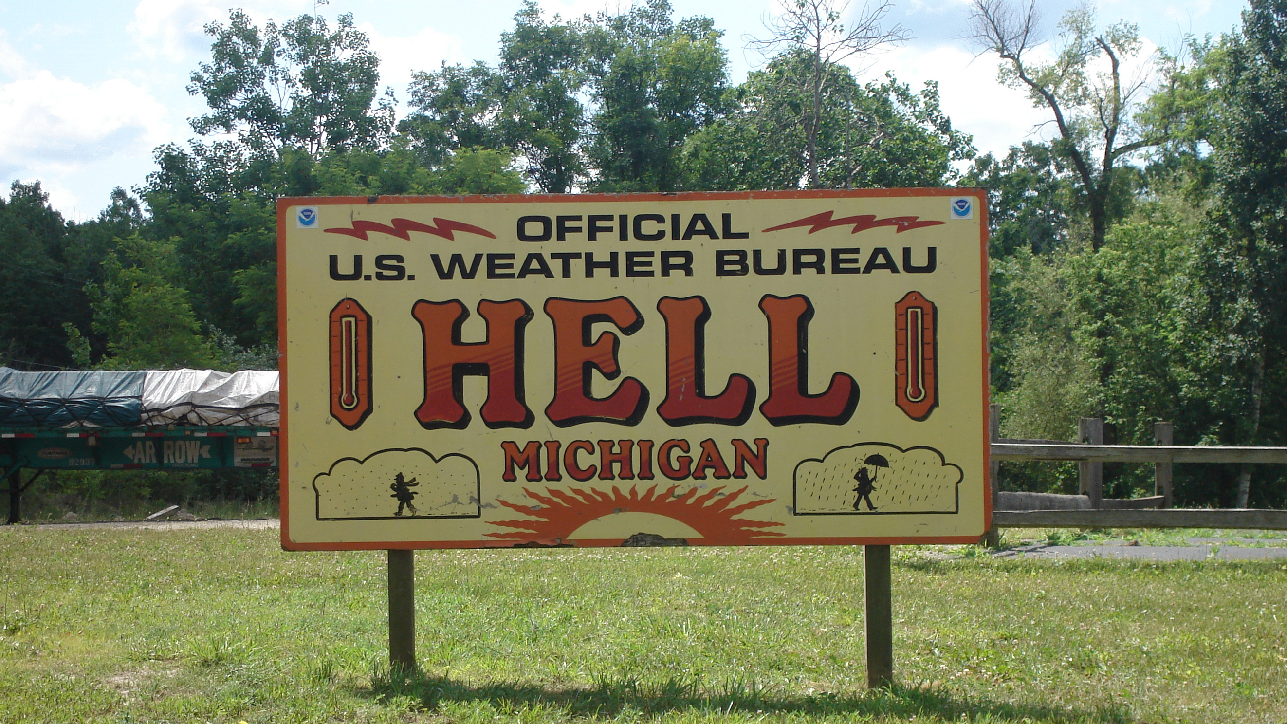 Sign on County highway D-32 in Hell, Michigan, United States, locating the official U.S. weather station in Hell. Sign depicted is a public domain work of the U.S. Government, image released under CC-BY-SA-3.0 license, attribute to "Sswonk".